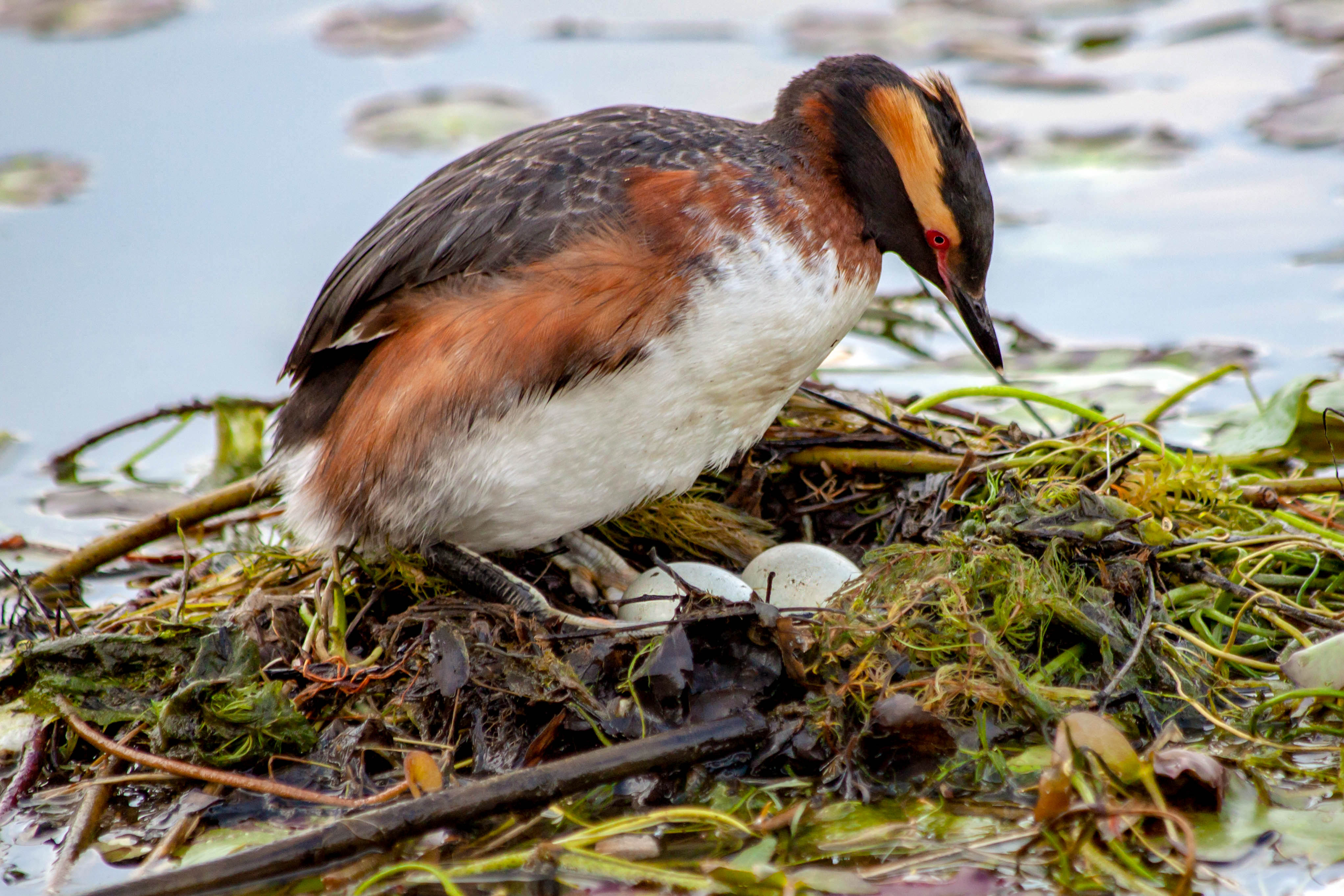 Slavonian Grebe Podiceps auritus, Russia